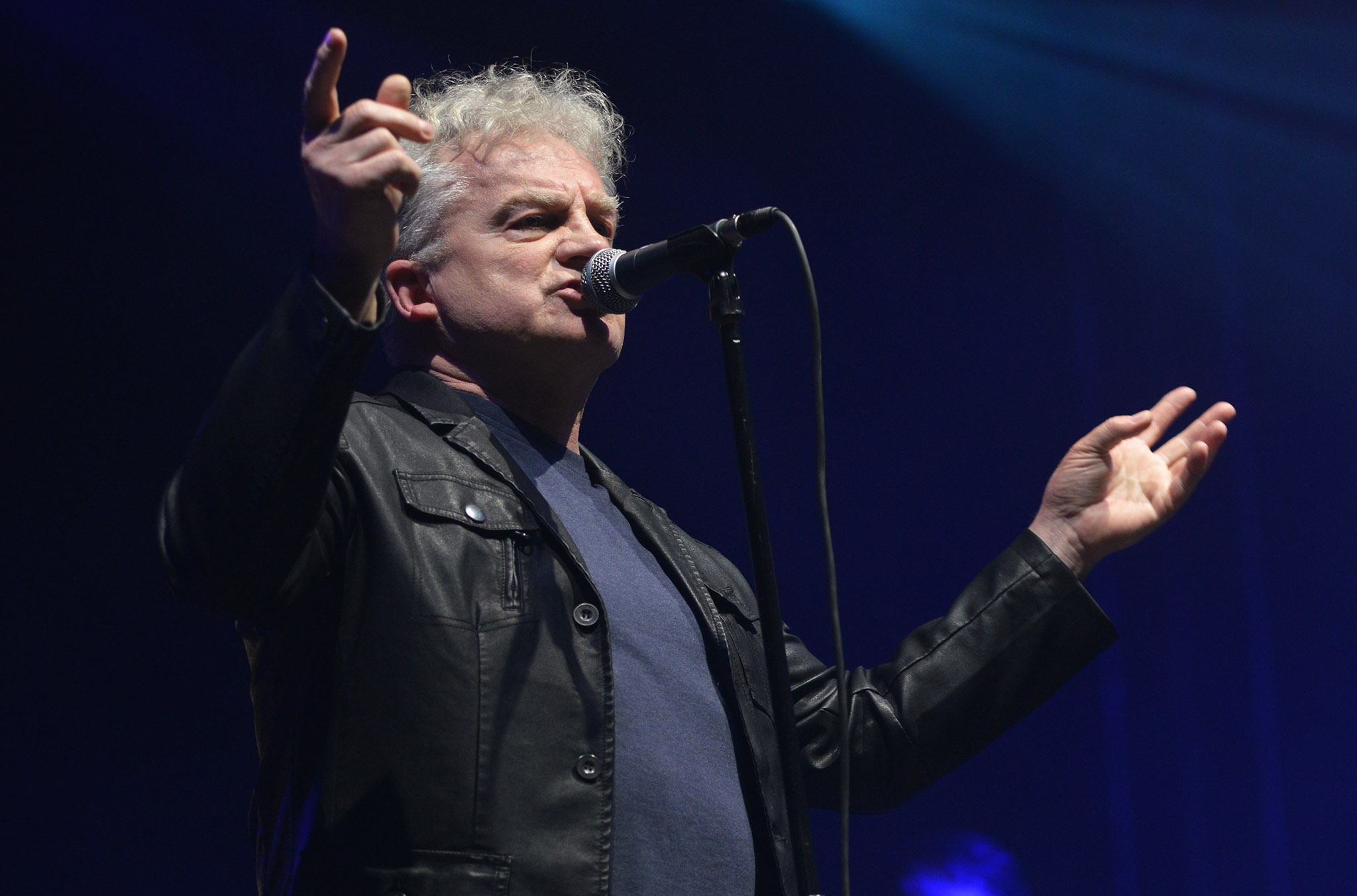 Music photography: Felicjan Andrzejczak, Budka Suflera band. Concert in Bielsko-Biała, 2014